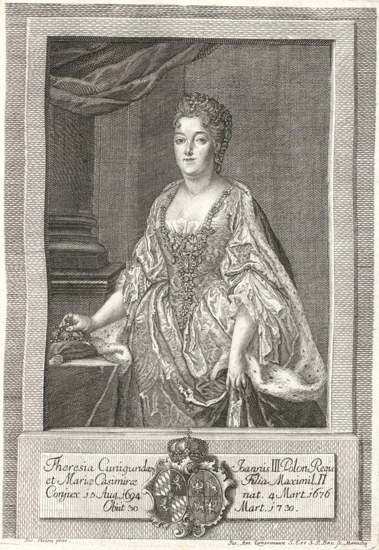 Portrait of Theresa Kunegunda Sobieska (1676-1730), part of The Series Imaginum Augustae Domus Boicae, ad Genuina Ectypa Aliaque Monum Fide Digna delin. et Aaeri Incidit, Monachium (A Series of Portraits of the Noble House of Bavaria...) is a genealogical series of portraits of members of the House of Wittelsbach engraved by Joseph Anton Zimmermann after contemporary and old portraits by different artists, and published since 1773.